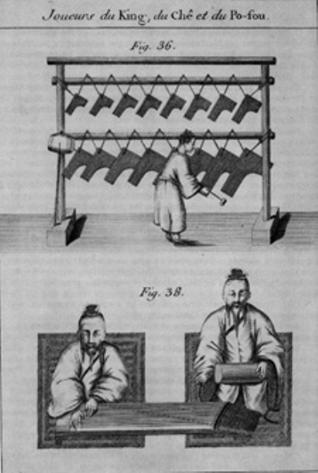 Chinese art by Amiot (1780)